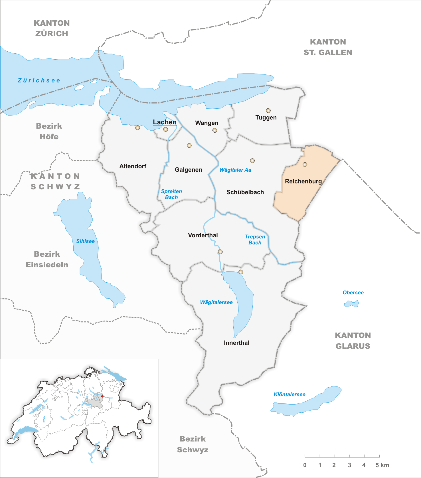 Municipality Reichenburg